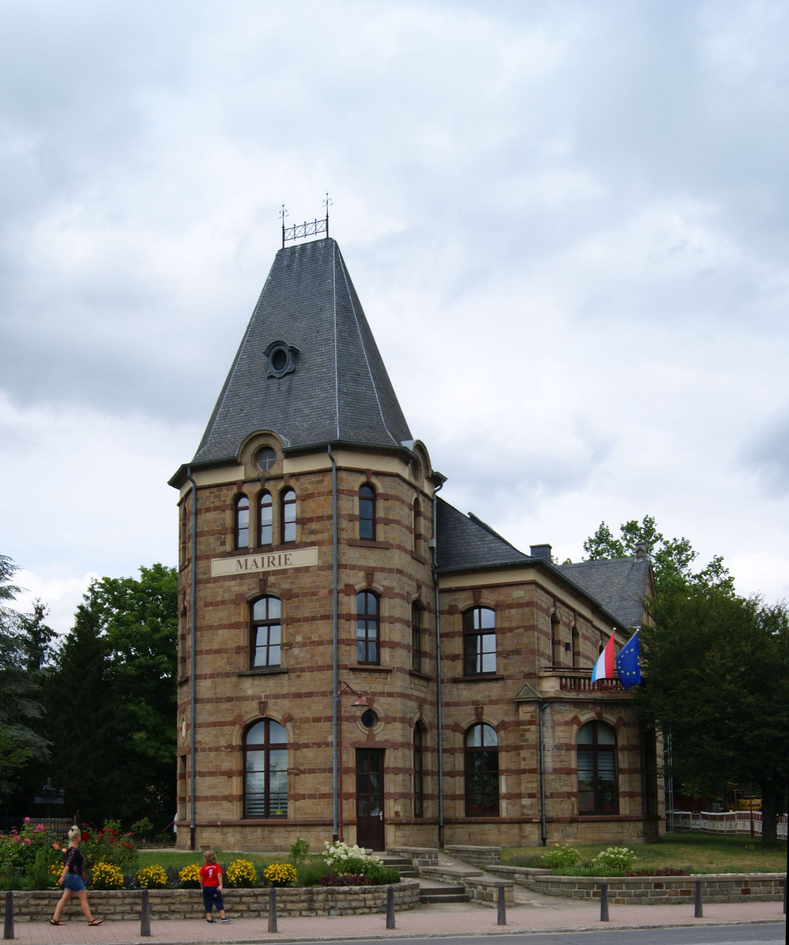 Town Hall in Wasserbillig (luxembourgish: Waasserbëlleg), municipality Mertert, canton Grevenmacher in Luxembourg. The town hall was built as a railway station (Prinz Heinrich Bahnhof).